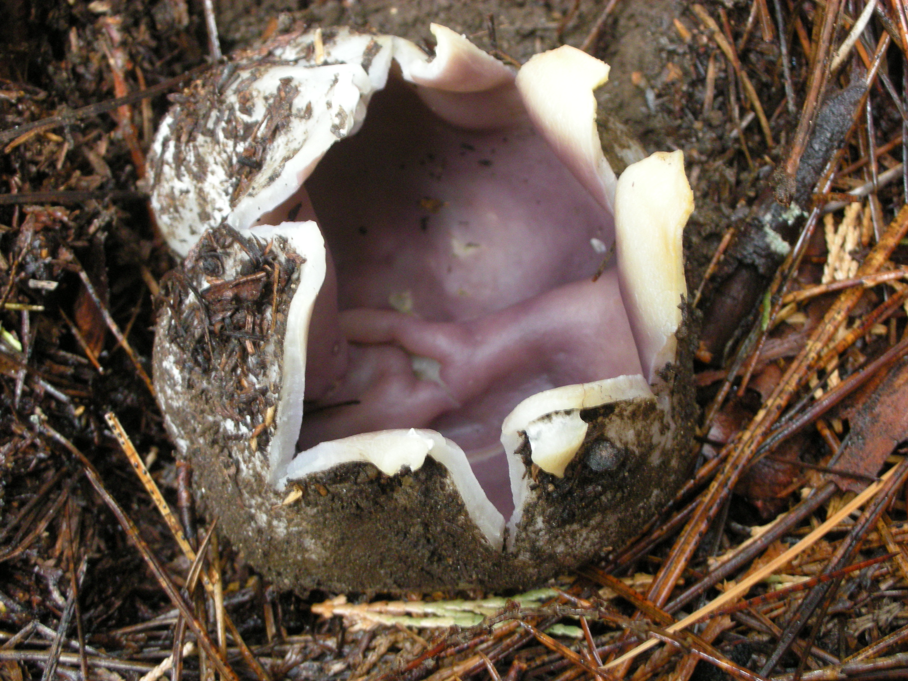 The cup fungus Sarcosphaera coronaria (Jacq.) J. Schröt. Photographed in Evergreen Rd, California, USA.